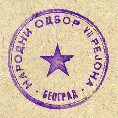 Seal of VII Raion of Belgrade, 1947